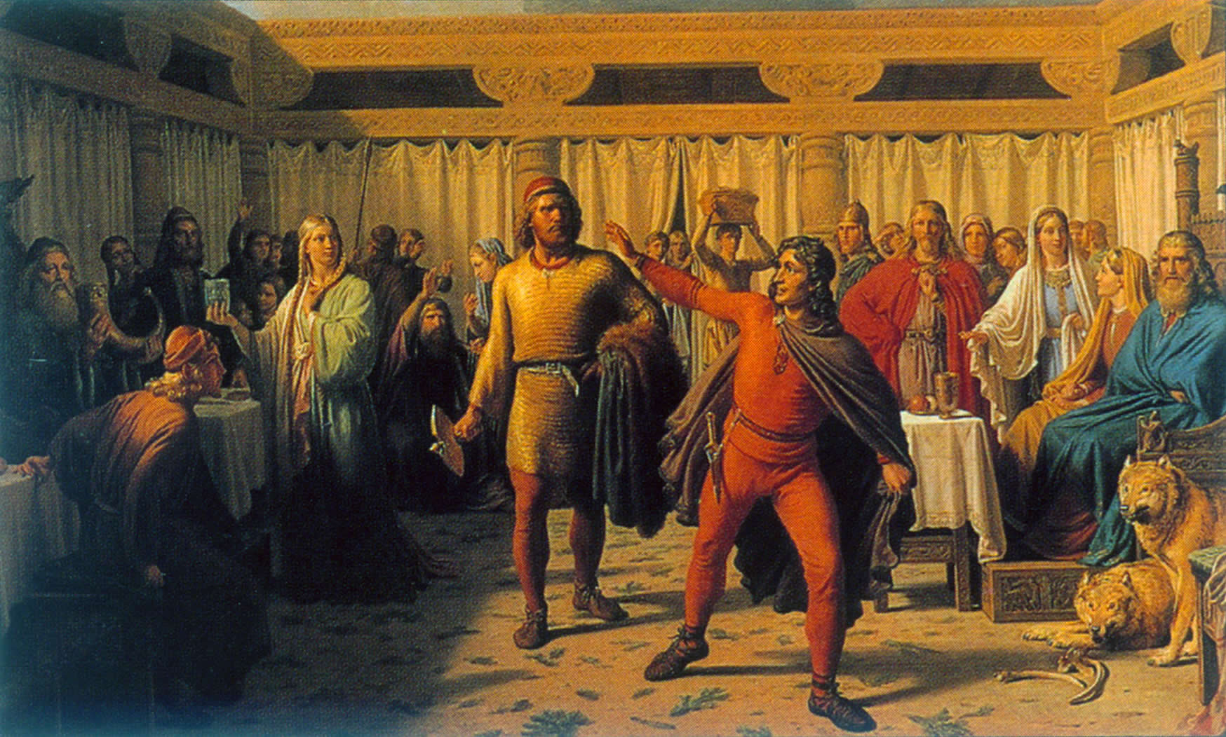 Perhaps an illustration[1], reworked in 1861, from the 1857 painting at SMK. KID only lists the 1857 with Ægir in the title.